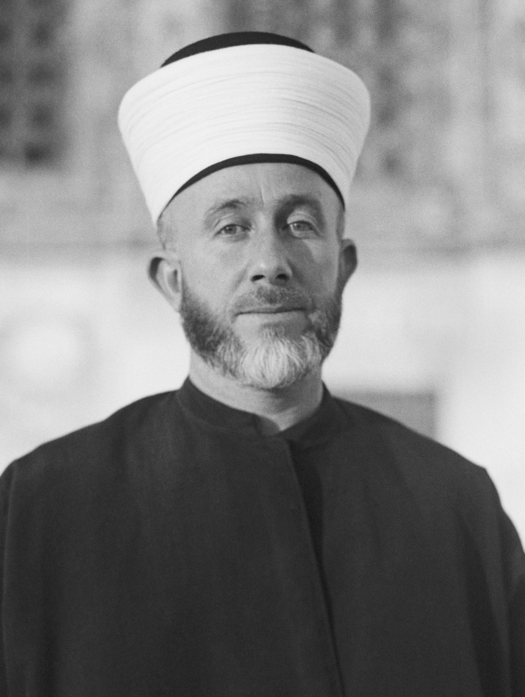 His Eminence the Grand Mufti of Jerusalem. Haj Amin Effendi el-Husseini. (Arab protest delegations, demonstrations and strikes against British policy in Palestine (subsequent to the foregoing disturbances [1929 riots])